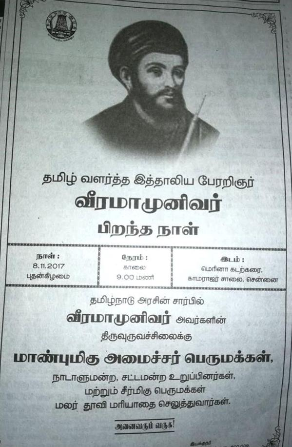 TN gov ad for Veeramamunivar